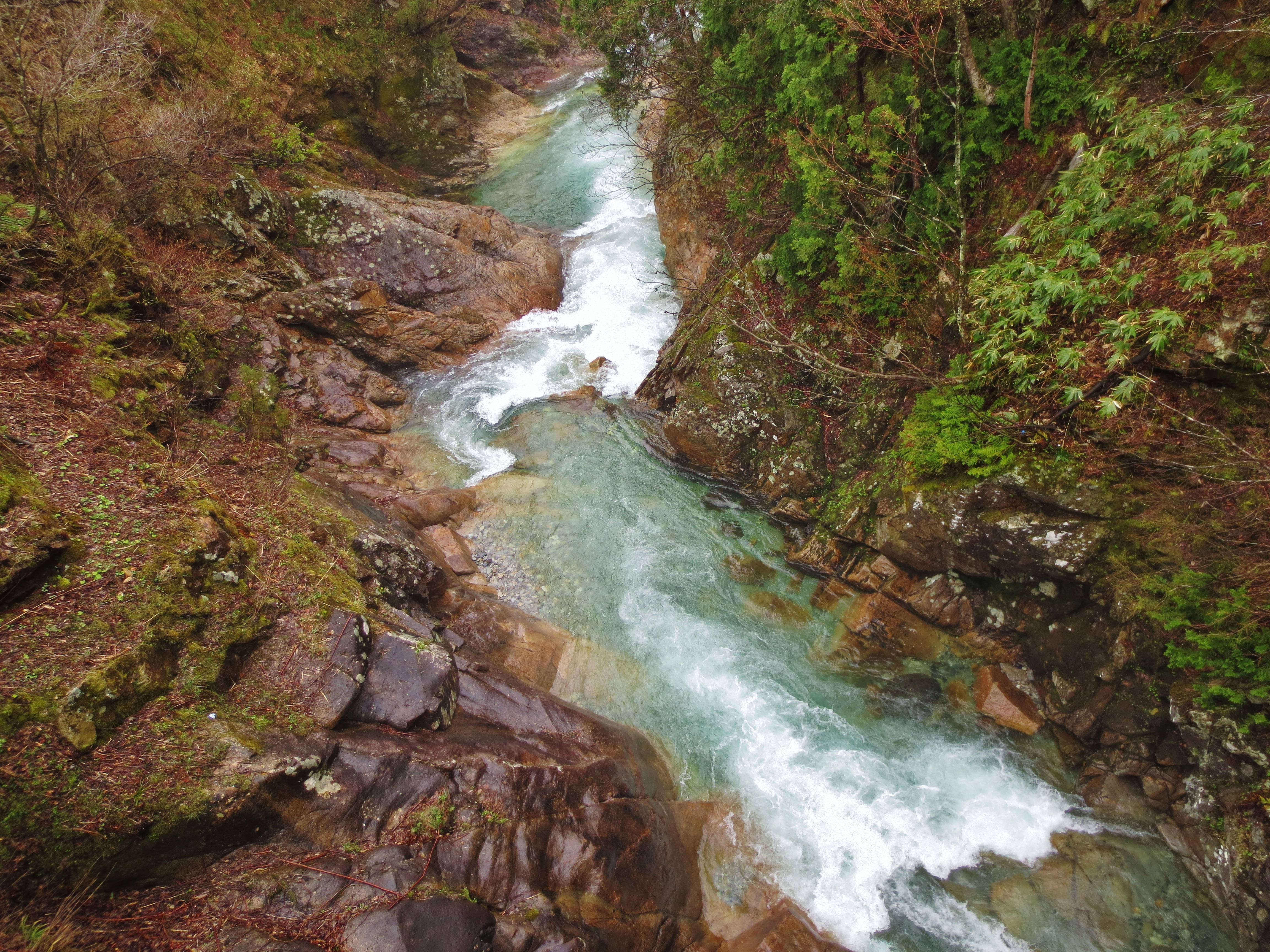 Yubiso River (Minakami, Gunma).